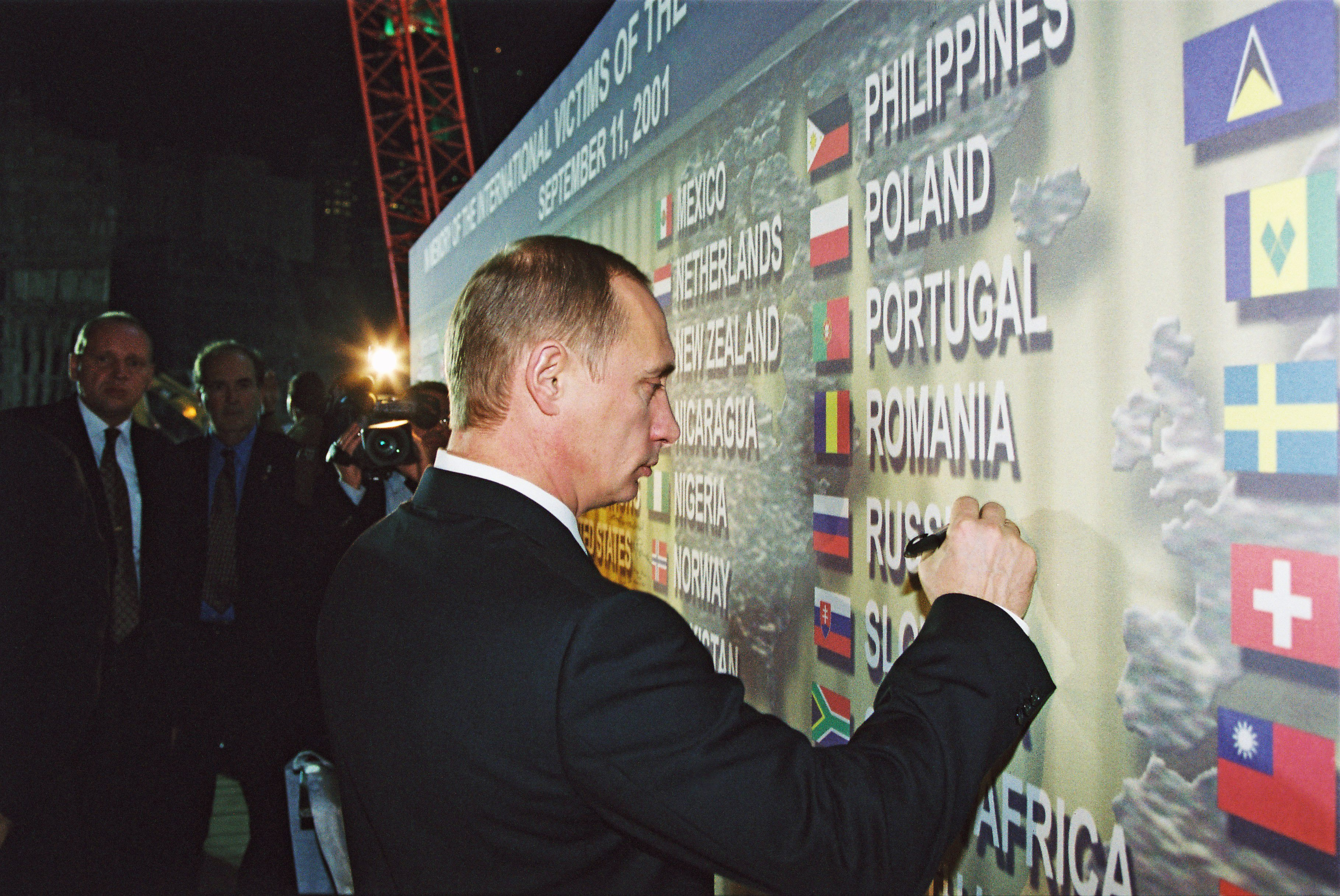 NEW YORK CITY. President Vladimir Putin making an inscription on the World Trade Centre Memorial Wall, on the site of the 9/11 terrorist attack. Translated inscription: "I bow my head to the victims of terrorism. I am highly impressed of the courage of New York residents. The great city and the great American nation are to win!! Vladimir Putin, November 15, 2001."